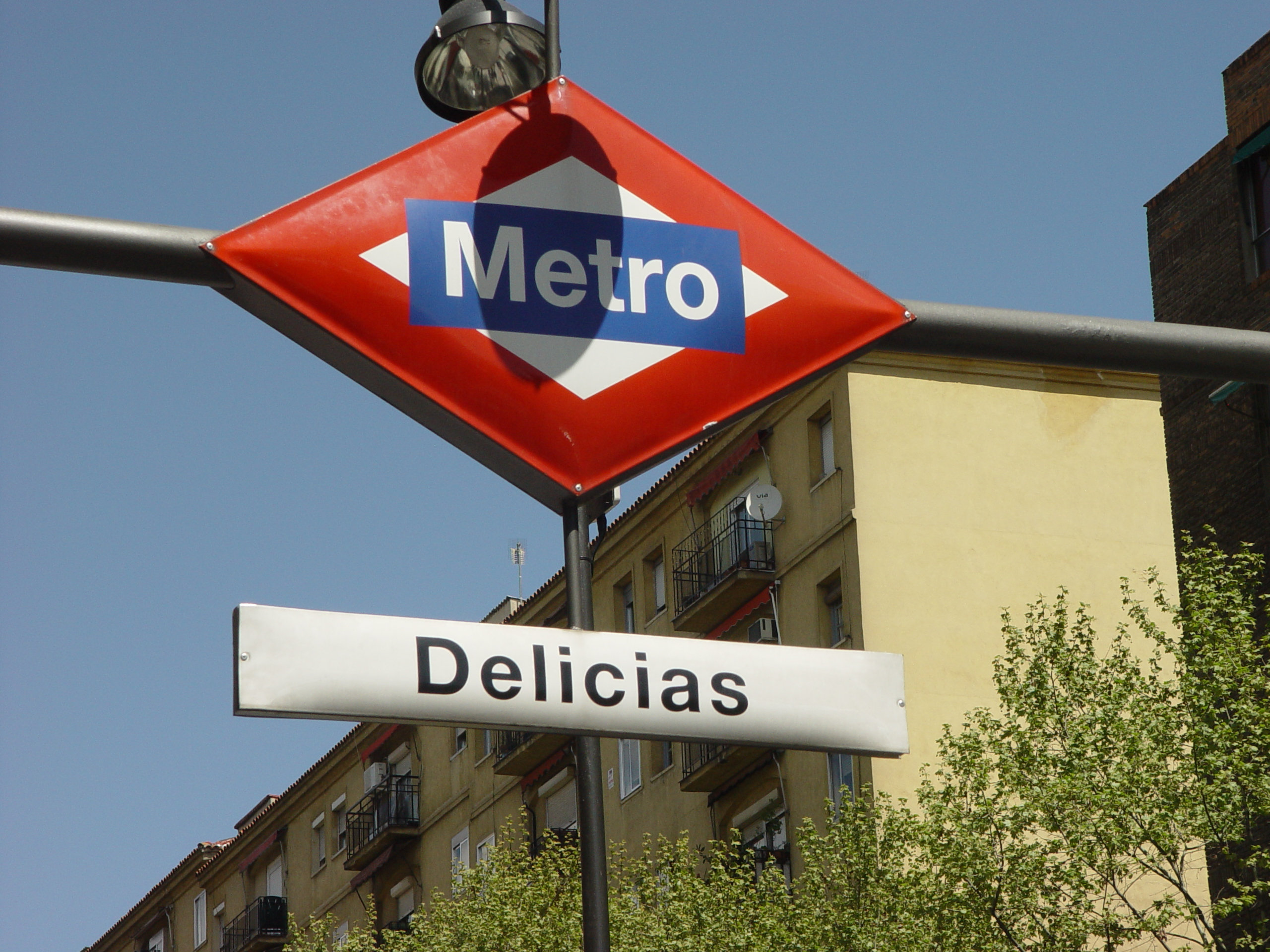 Madrid's metro sign at the station "Delicias" (Line 3) taken at April 15, 2005 with a Sony Cybershot